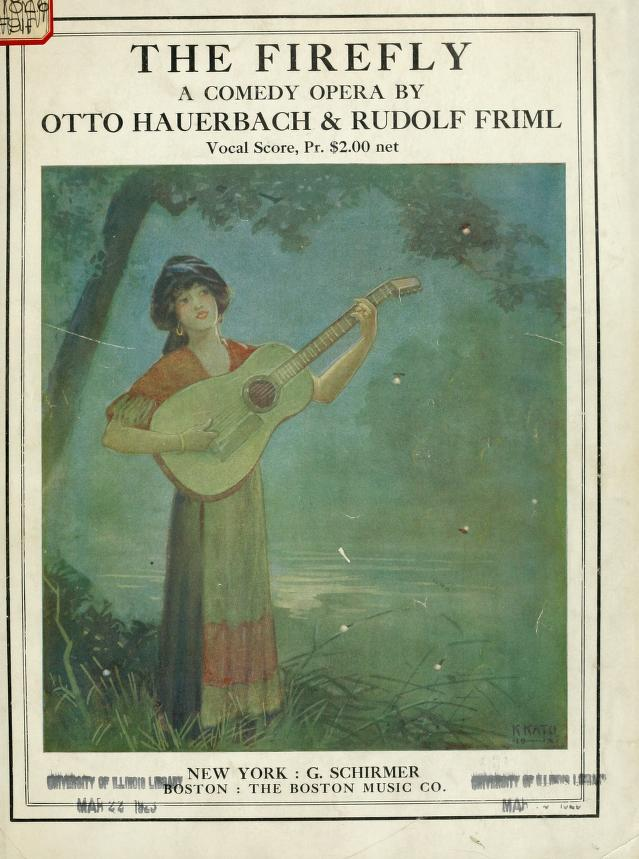 Scan from piano/vocal score of The Firefly, published by Schirmer, New York in 1912.